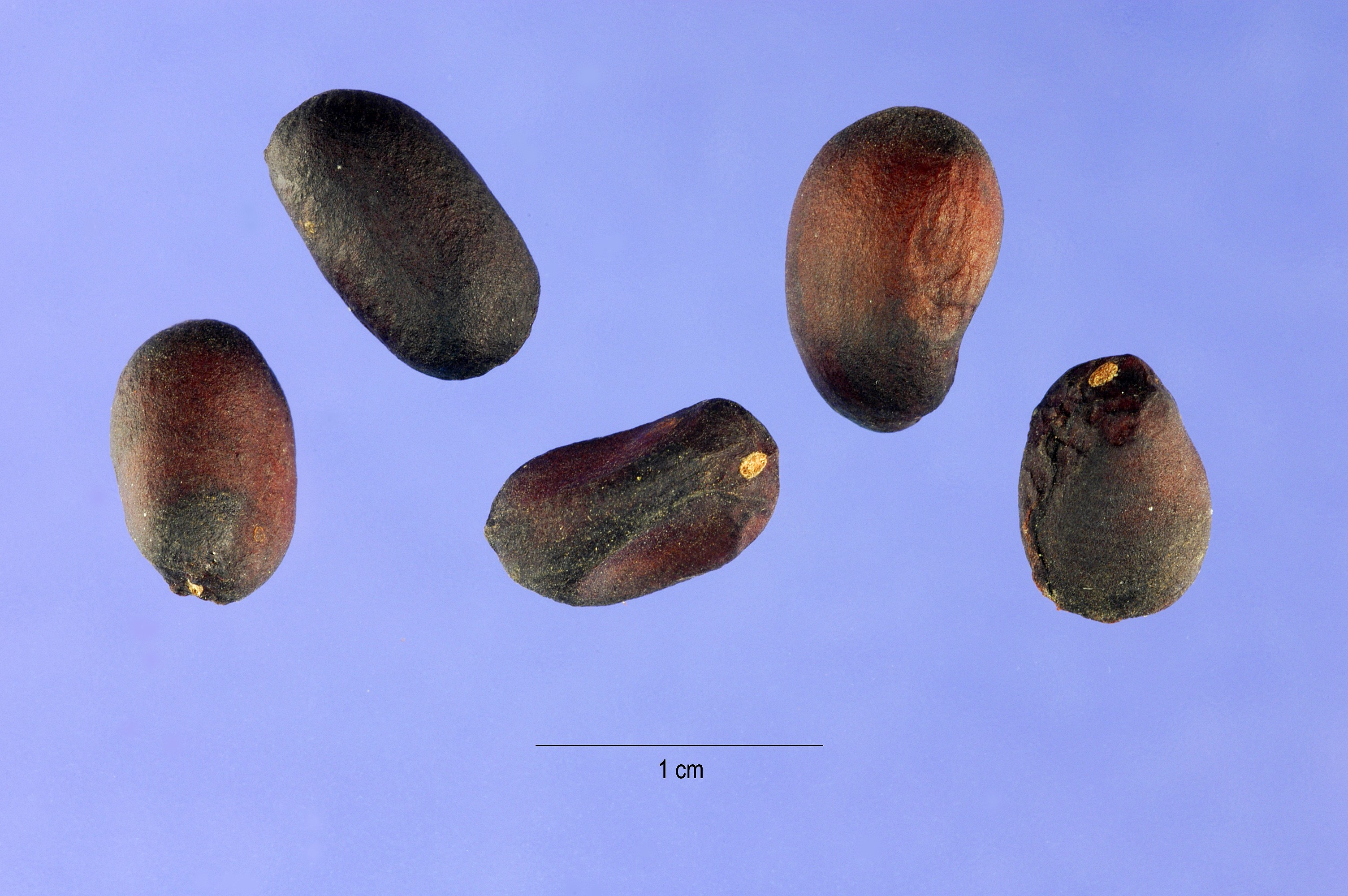 seeds of Paeonia brownii. Provided by USDA ARS Systematic Botany and Mycology Laboratory. United States, NV.